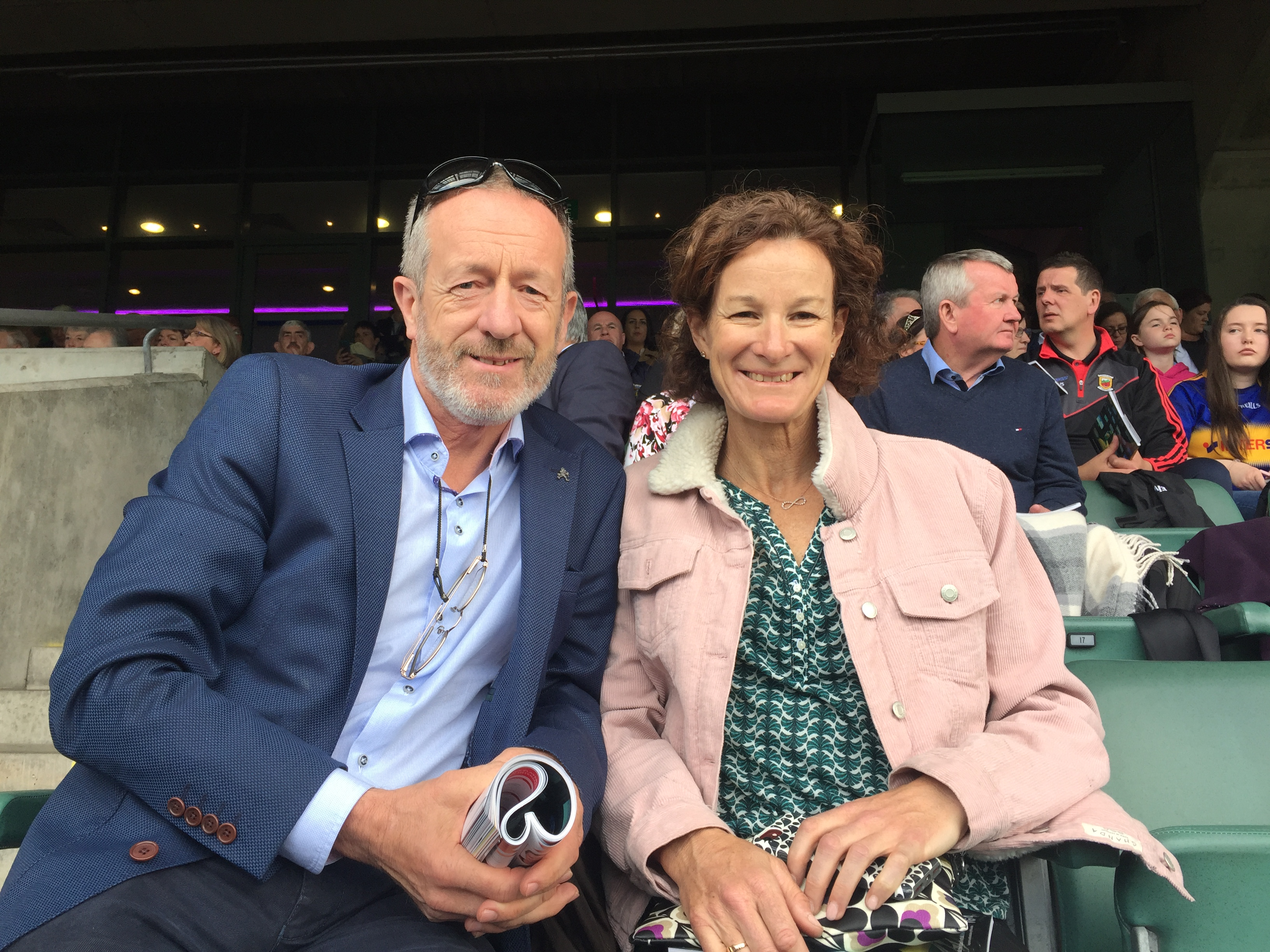 with olympic Gold medalist Sonia O Sulliva at the Women's football finals